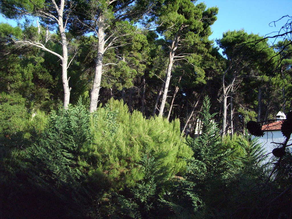 San Menaio monumental pinewood, the "Pineta Marzini"